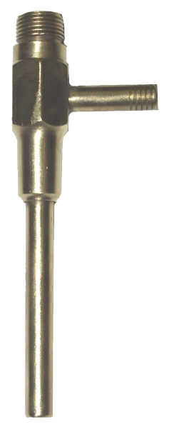 An Aspirator